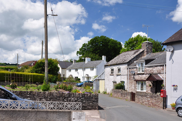 Village scene - Felinfach